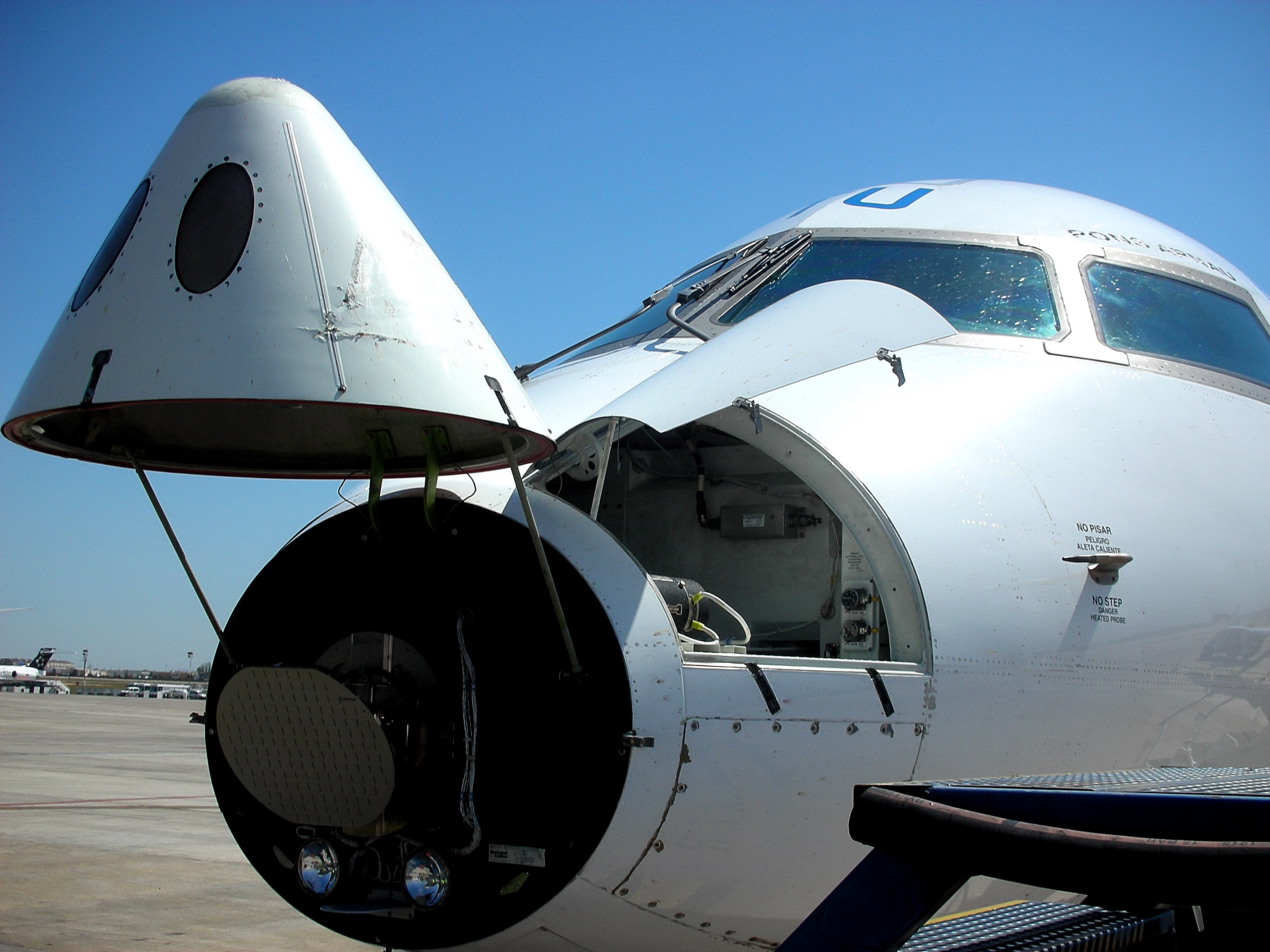 EC-ITU 7866 Canadair CL-600-2B19 Regional Jet CRJ-200ER 19-01-2004 Active C-GZSQ Pons Arnau